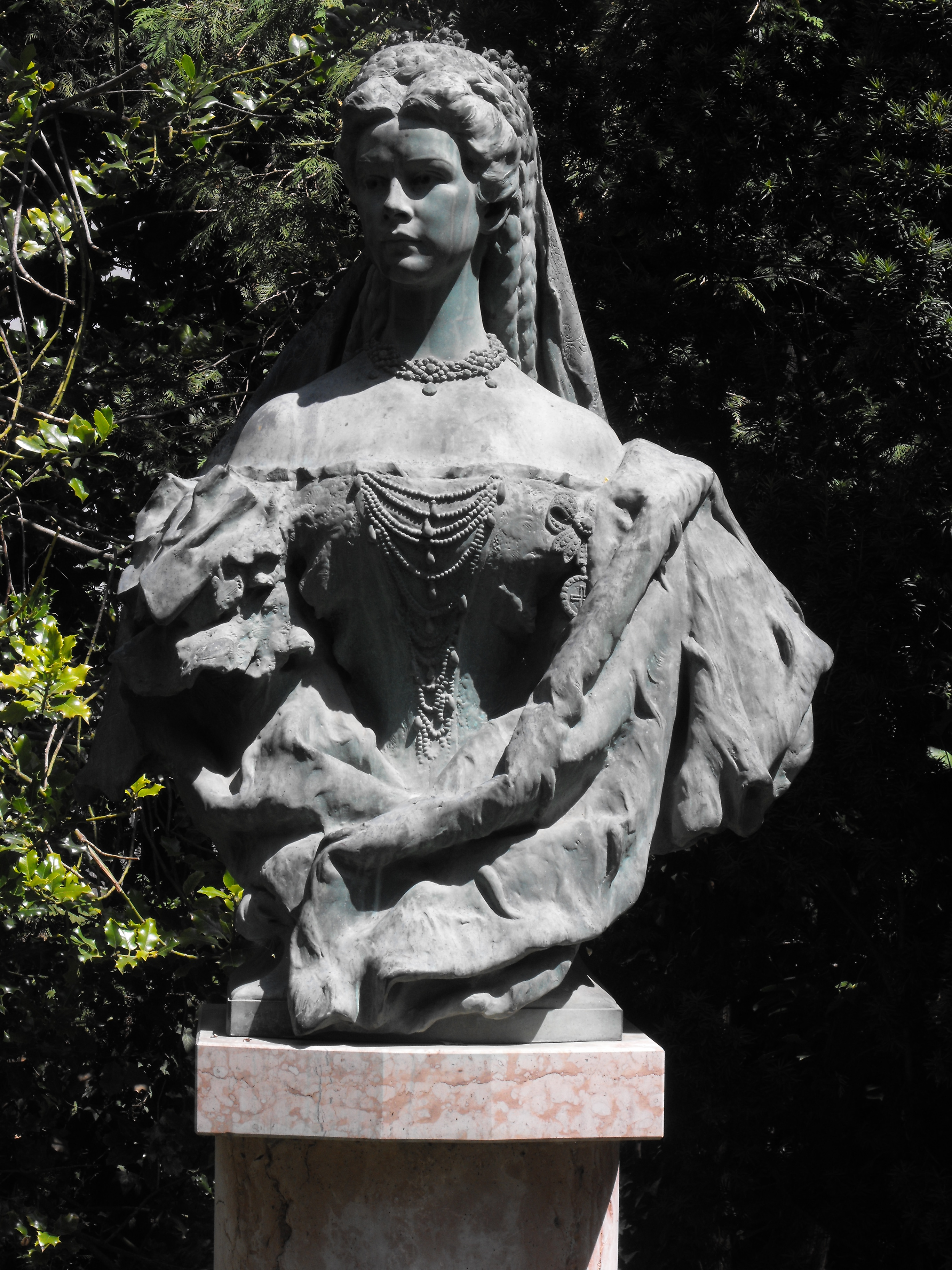 Statue of Elisabeth of Bavaria in Makó, Hungary.